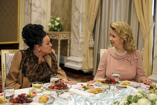 MOSCOW. Informal function honouring singer Lyudmila Zykina.